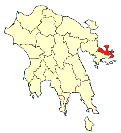 troizinia